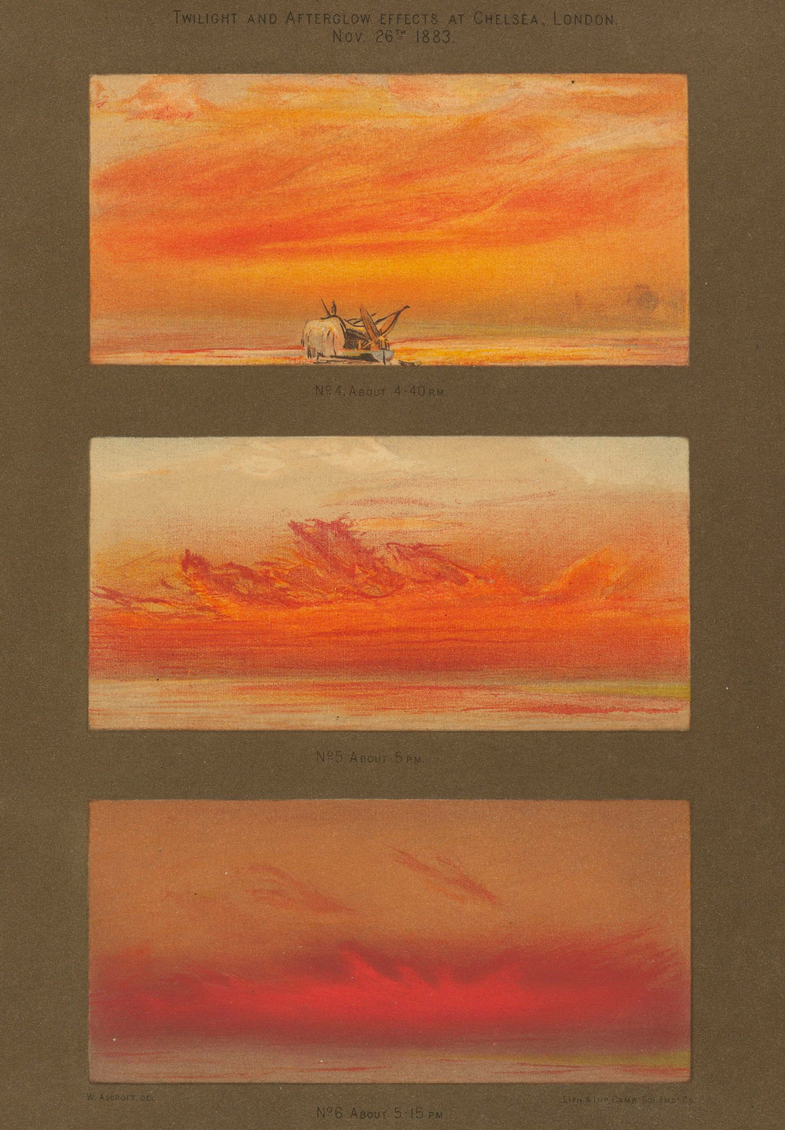 Illustration: The eruption of Krakatoa, and subsequent phenomena, 1888. Edited by George James Symonds (1838-1900). Illustration shows the sky as it appeared over time in the "afterglow" of the 1883 eruption. Published by the Royal Society (Great Britain). Krakatoa Committee. 71-1250, Houghton Library, Harvard University